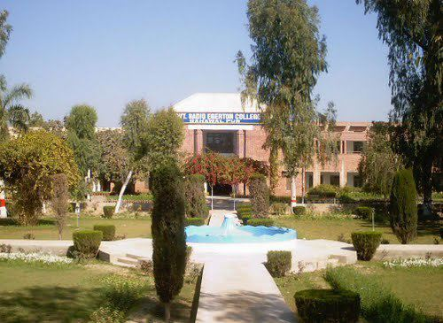 The new and present building of Sadiq Egerton College bahawalpur where college shifted in 1951 and works till now.